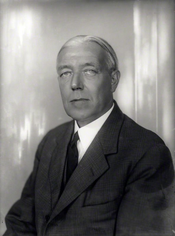 Charles Vyner Brooke, 3ème et dernier des Rajahs Blancs